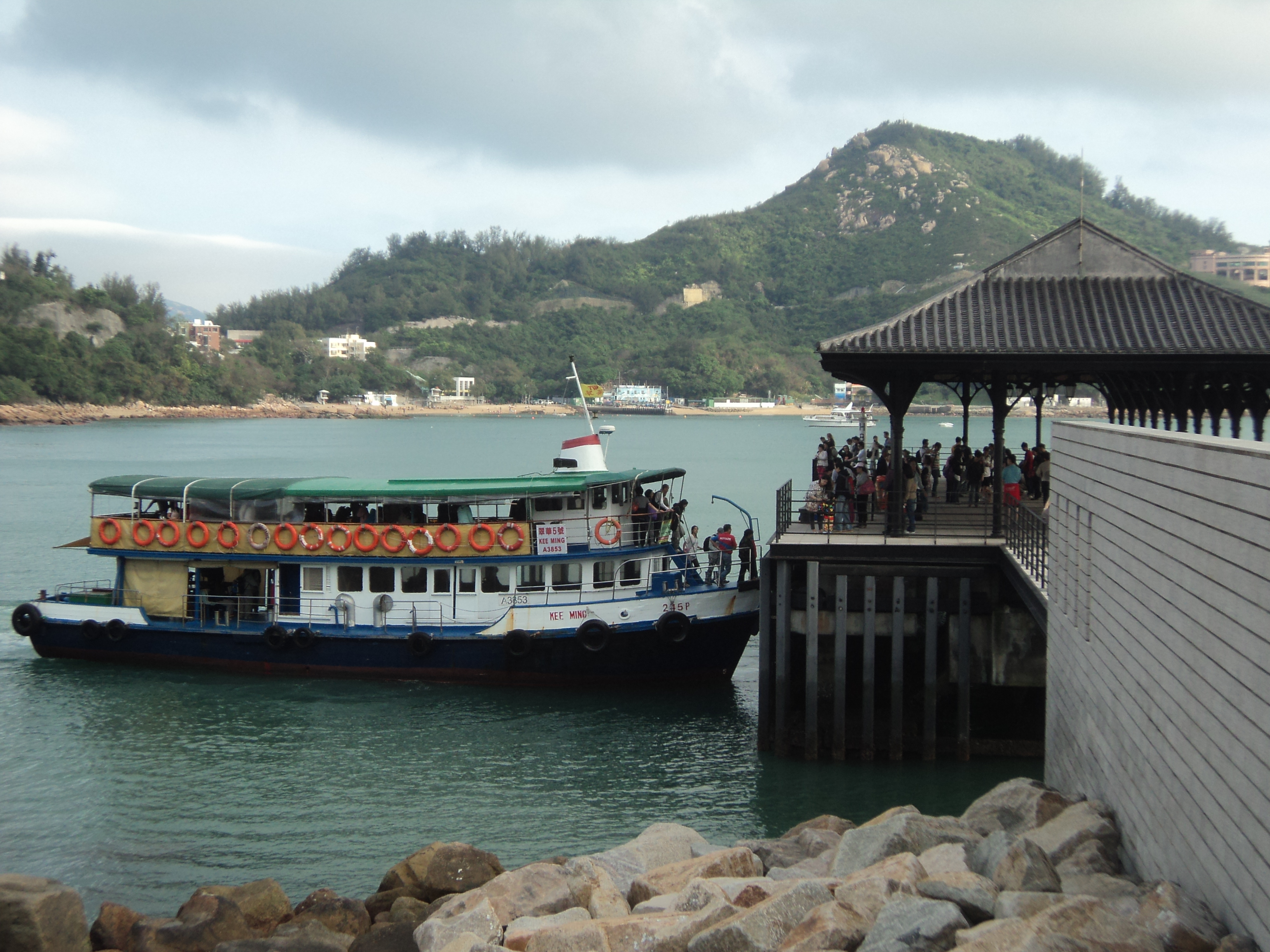 Tsui Wah Ferry docked at Blake's Pier. This ferry just returned from Po Toi Island. 中文（香港）: 翠華船務的街渡在赤柱卜公碼頭停泊。此街渡剛剛由蒲台島回到赤柱。